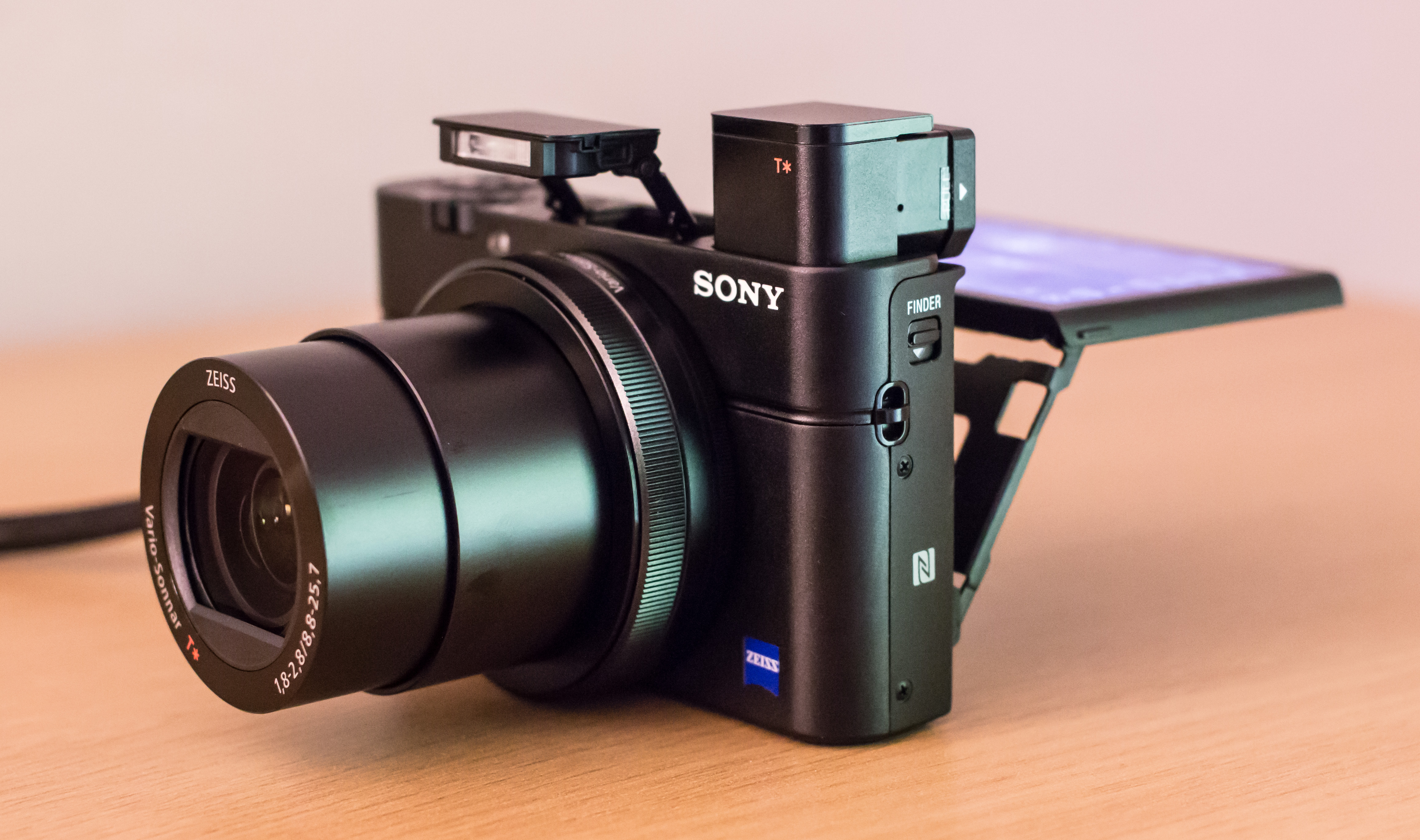 A Sony RX100 Mark III camera with lens, flash, electronic viewfinder, and LCD panel extended.